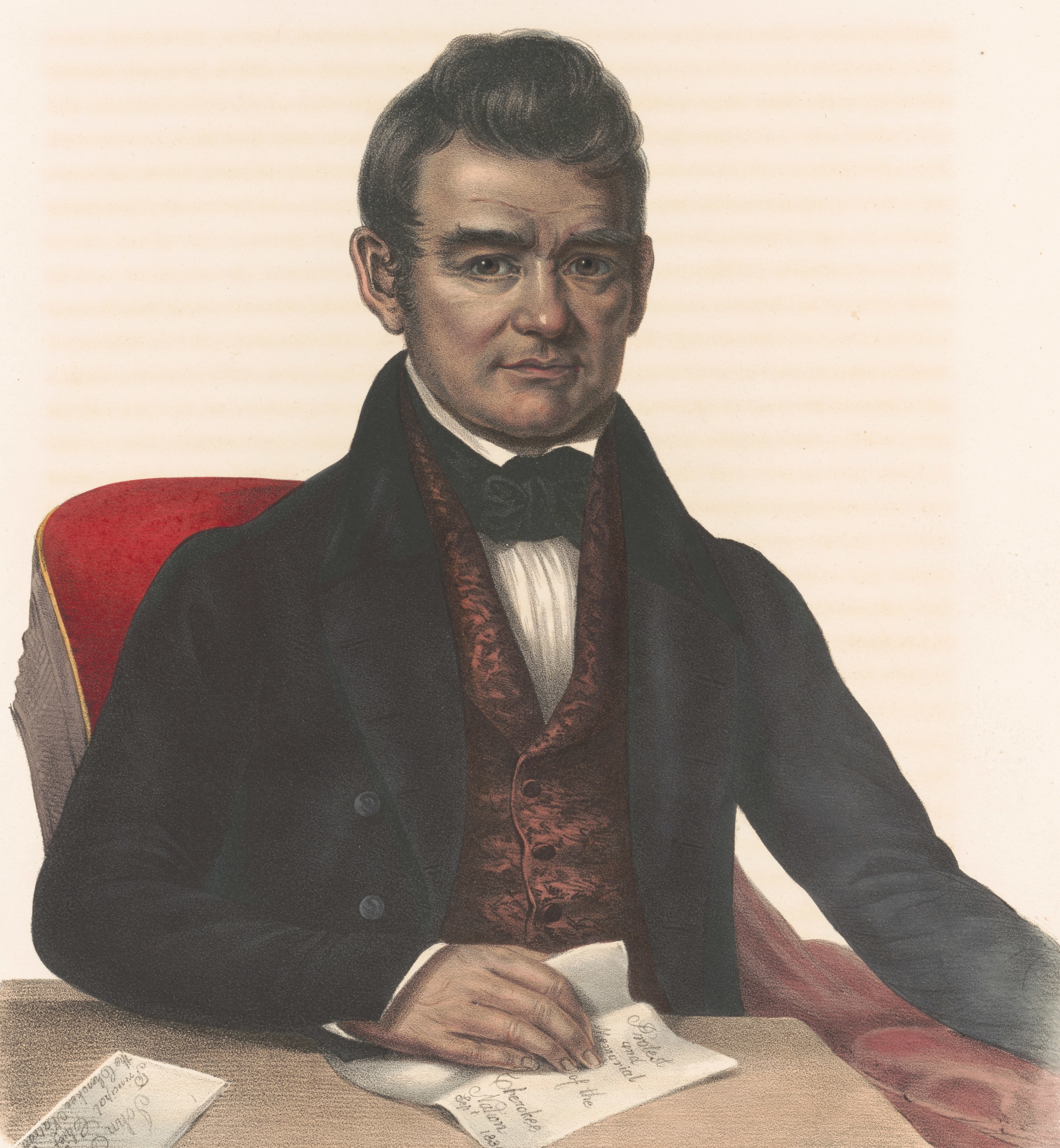 John Ross, a Cherokee chief / drawn, printed & coloured at the Lithographic & Print Colouring Establishment. Published in History of the Indian Tribes of North America.